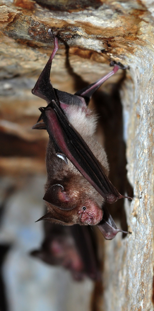 Shot in a temple in Tirunelveli